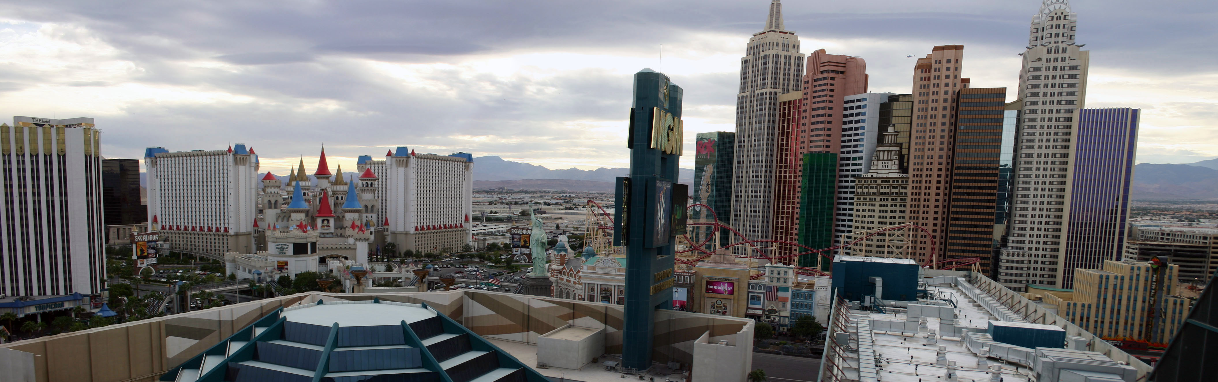 Panorama of the intersection of Las Vegas Blvd and Tropicana Ave from the 19th floor of the MGM Grand terrace.